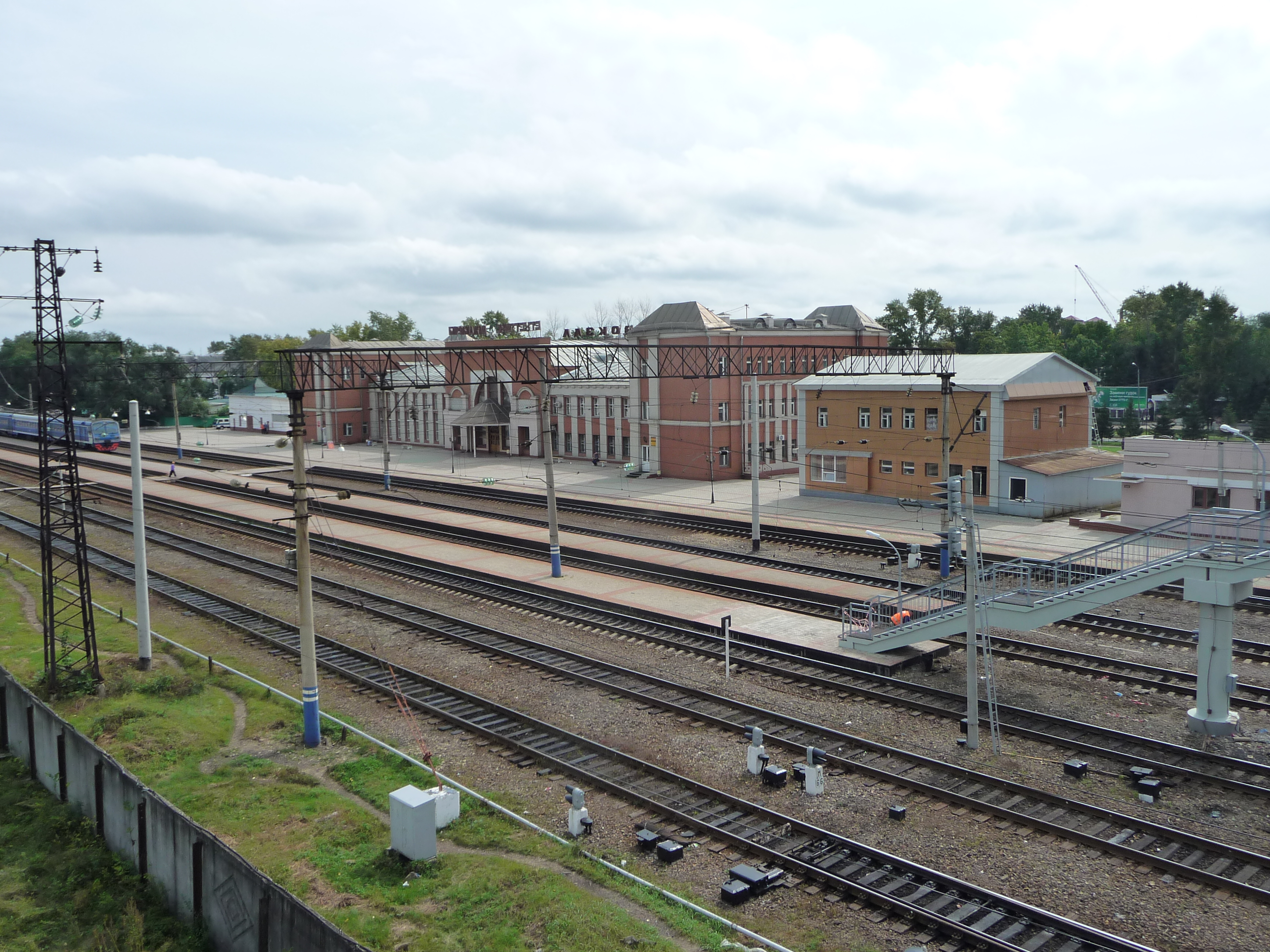 Railway station in Birobidzhan (Jewish Autonomous Oblast, Russia).